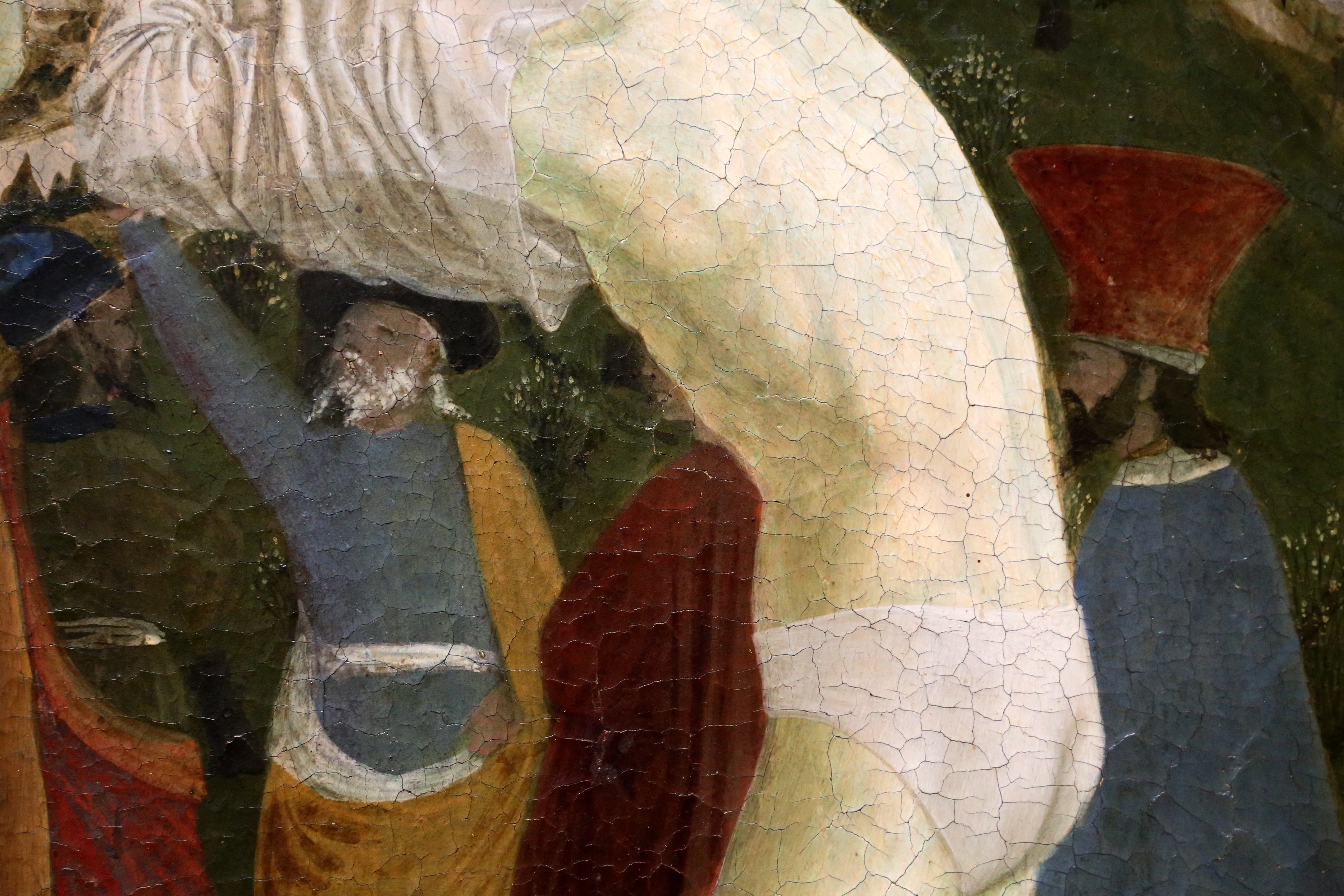 Baptism of Christ by Piero della Francesca